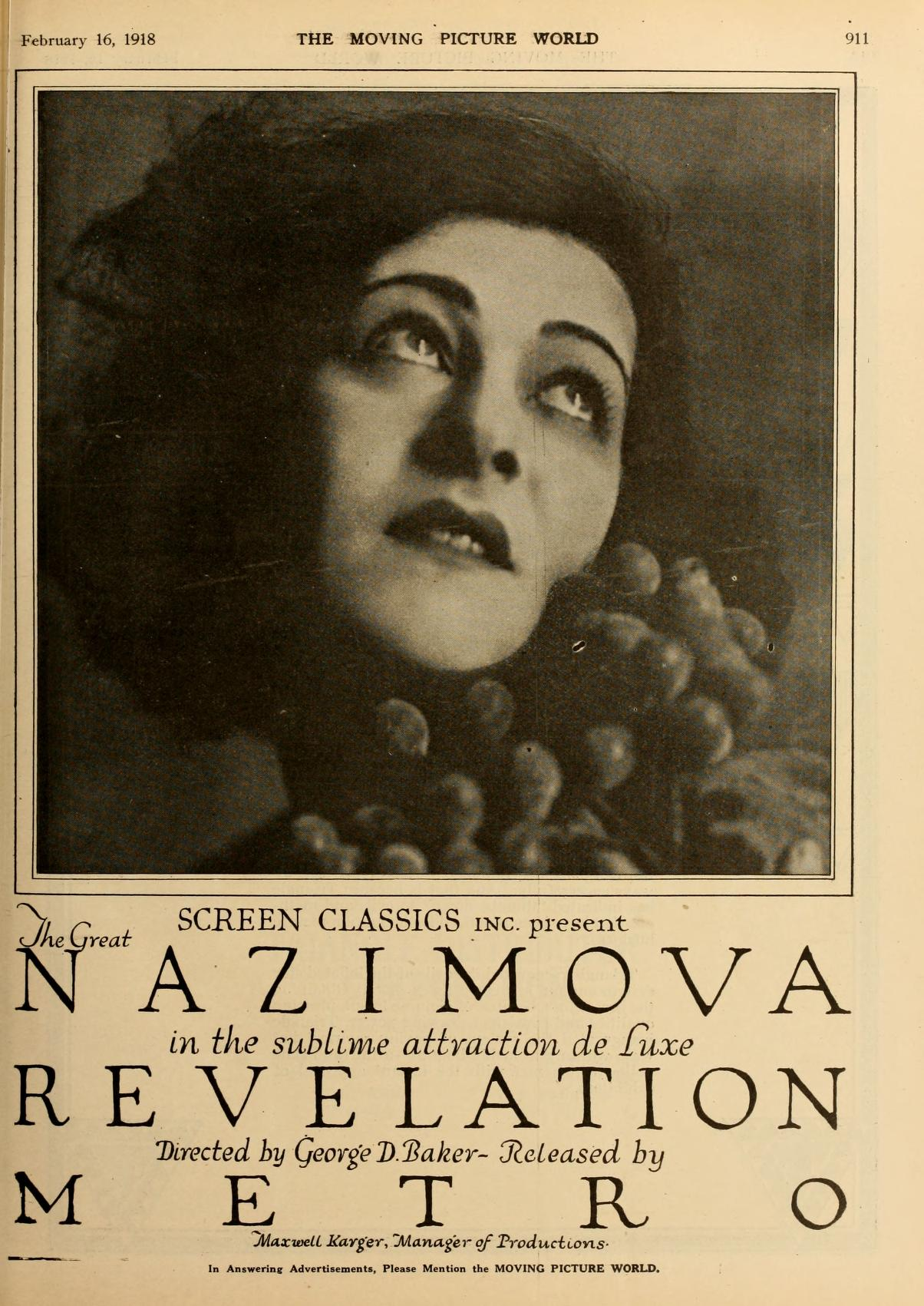 Advertisement in The Moving Picture World for the American film Revelation (1918).